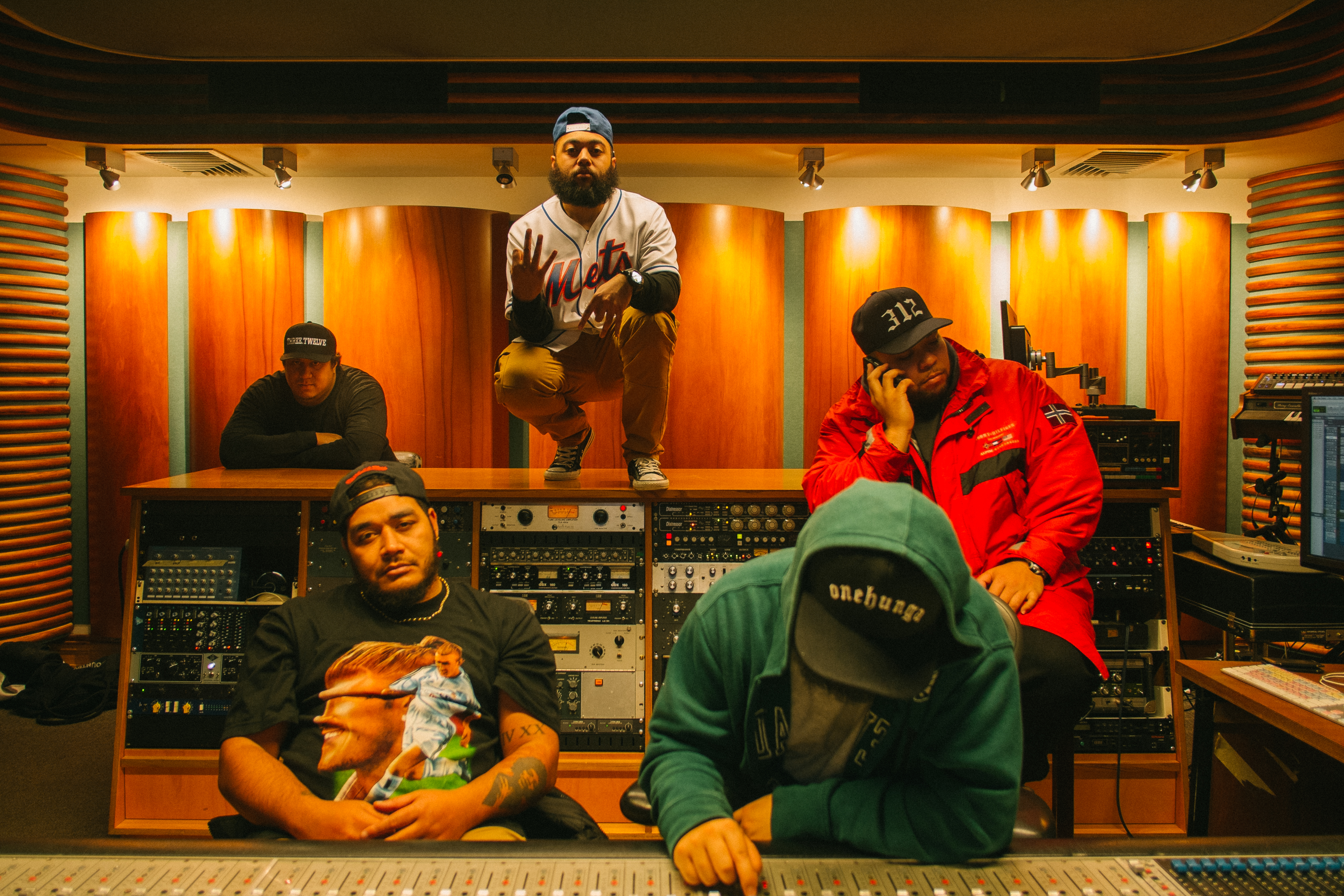 The Most Electrifying Rap Group in Entertainment working on their debut album 'STONEYHUNGA' at Roundhead Studios